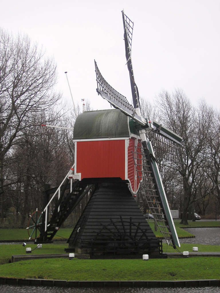 Windmill "Oudenhofmolen" in Oegstgeest, Netherlands